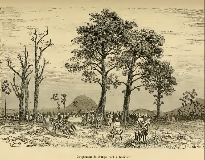 The banians of Mungo Park in Goniokory